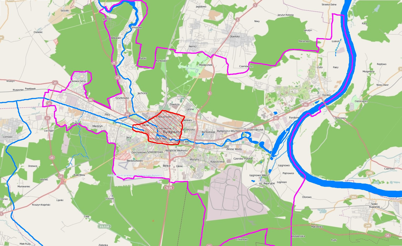 Downtown Bydgoszcz (Poland)